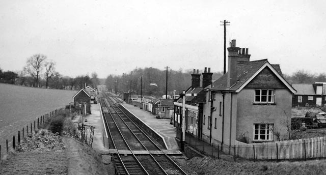 Braughing Station. View northward, towards Buntingf0rd; ex-GER St Margaret's - Buntingford branch. Station closed when passenger service ceased on branch on 16/11/64, completely on 20/9/65